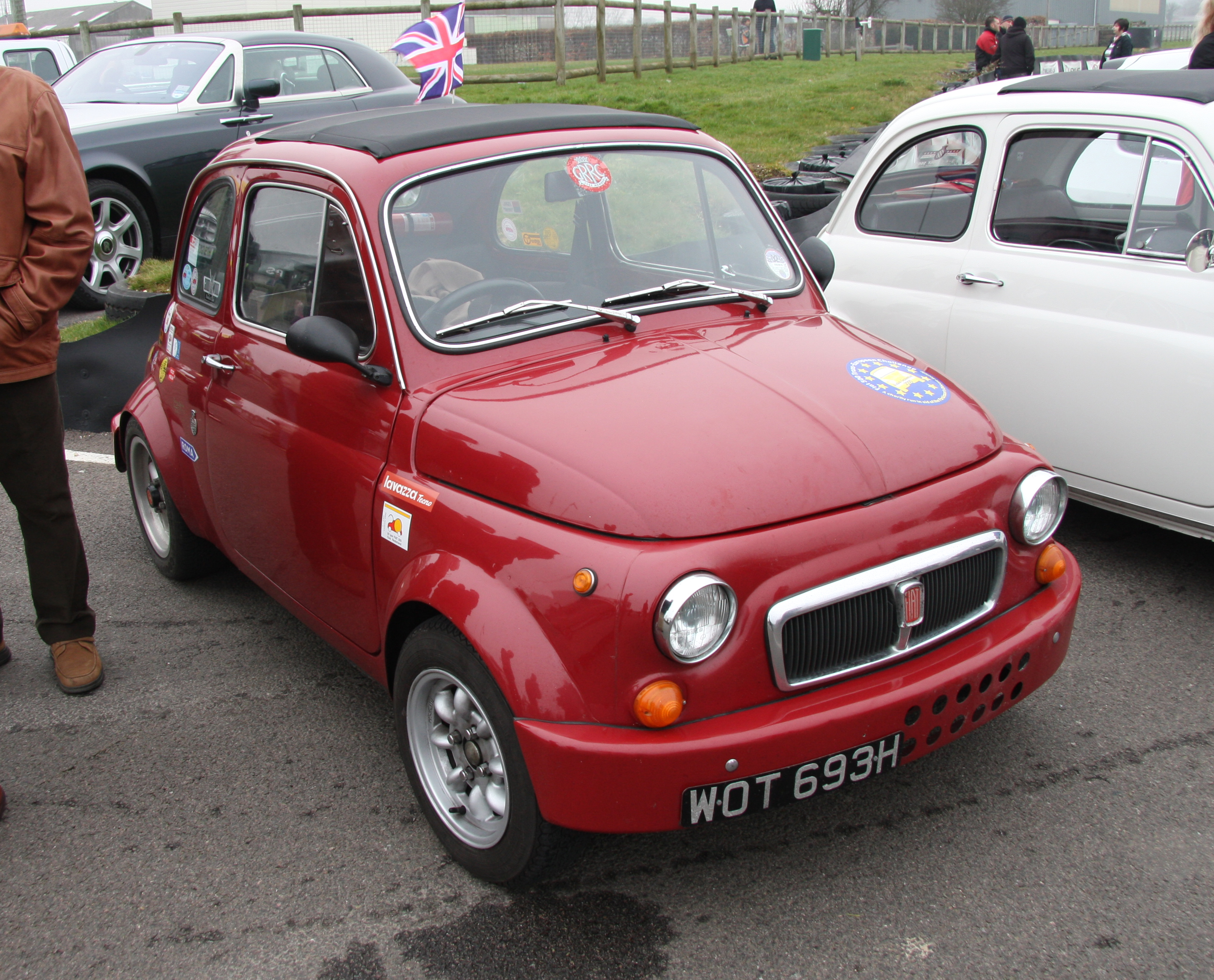 Fiat 500 Abarth